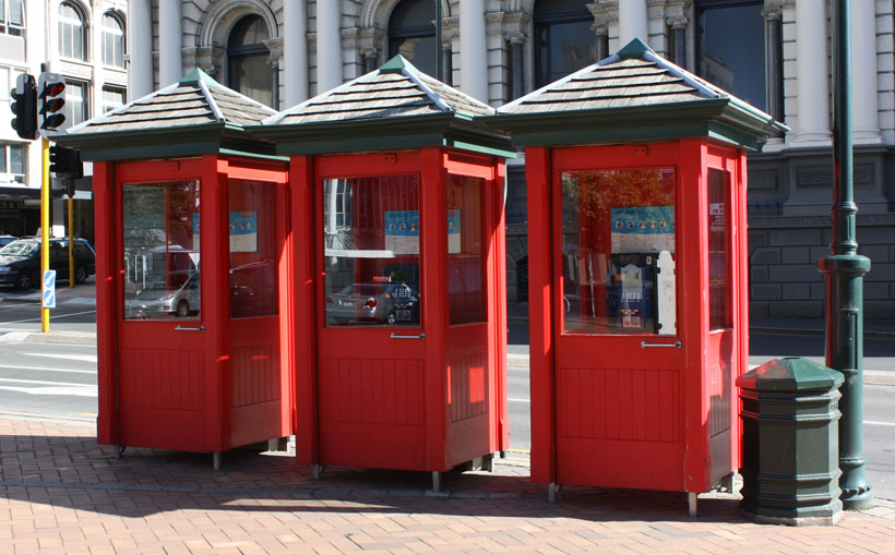 Phone booths in Dunedin, corner Princes and Rattray Streets